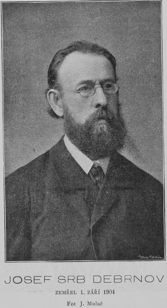 Portrait of Josef Srb-Debrnov, Czech musical journalist and critic